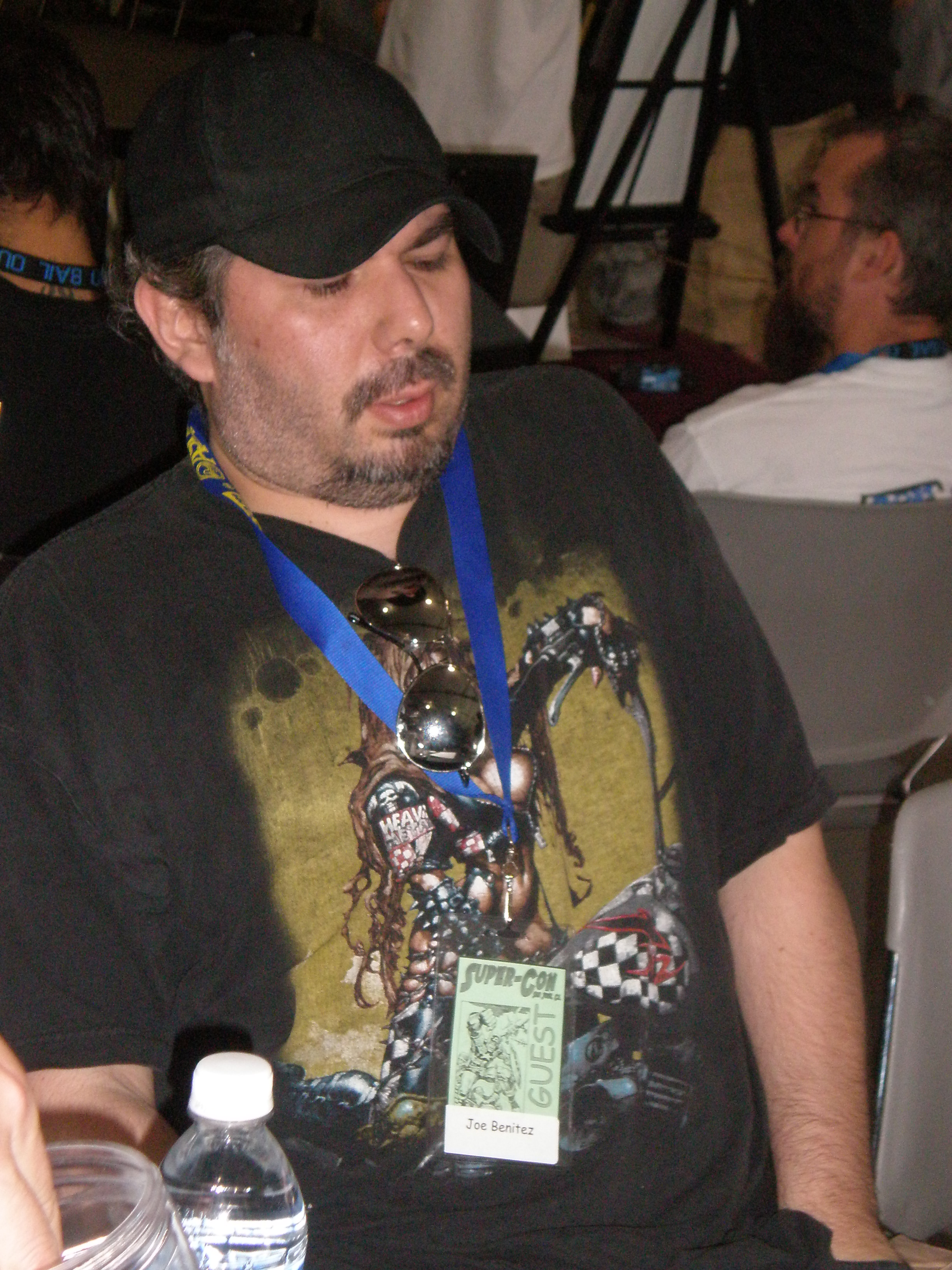 Joe Benitez at Super-Con 2009 in San Jose, California.